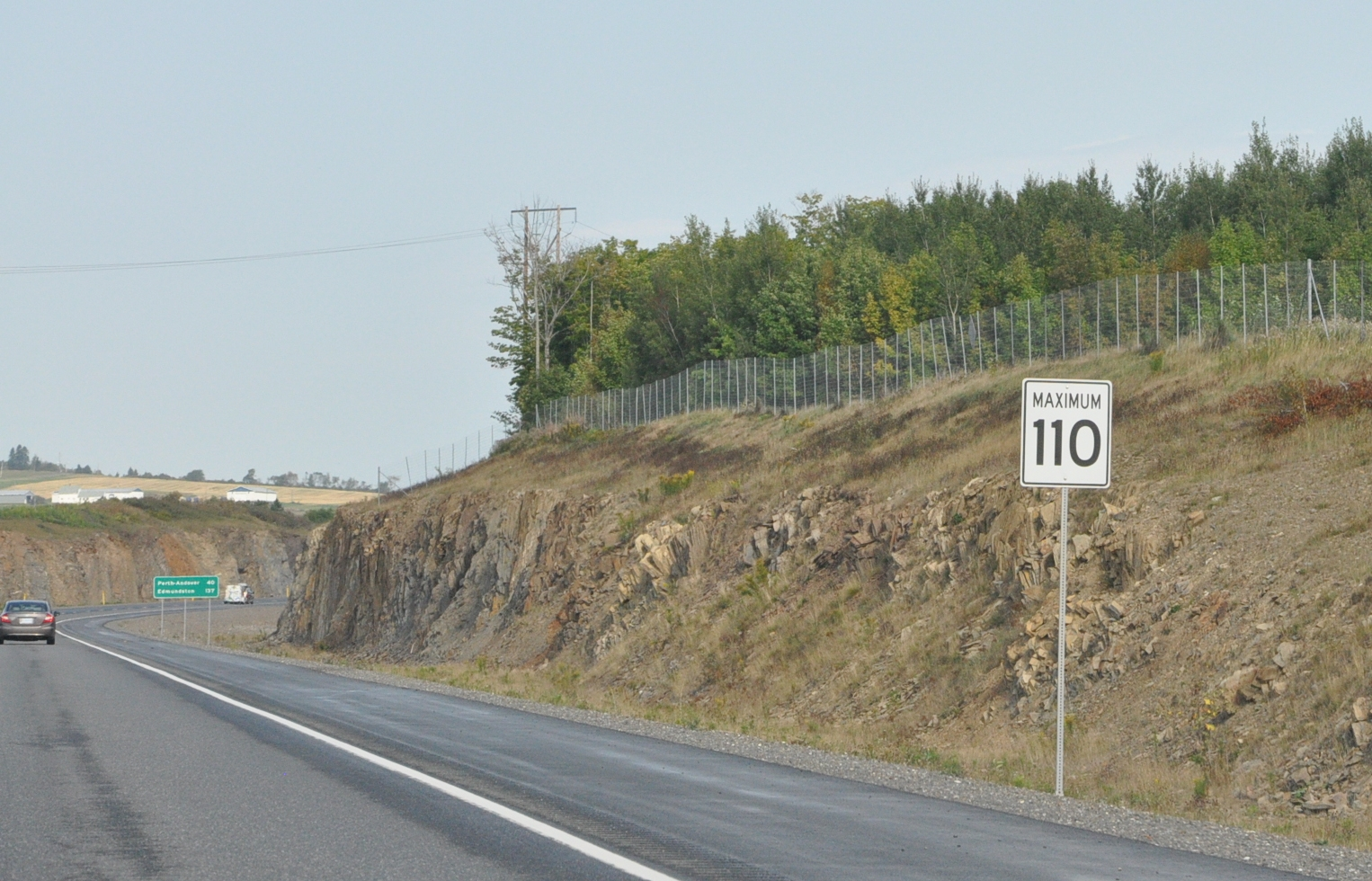 Maximum 110 km/h sign on the Trans-Canada Highway in New Brunswick.